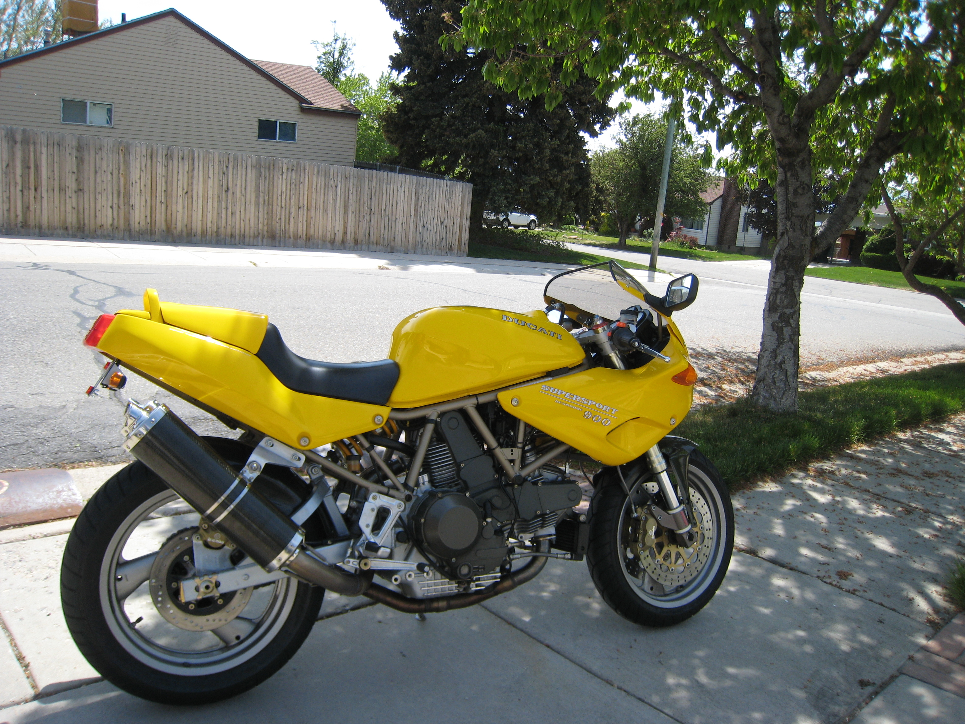 1998 Ducati 900 SS/CR